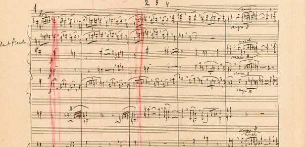 Rachmaninoff symphony no.2 autograph manuscript